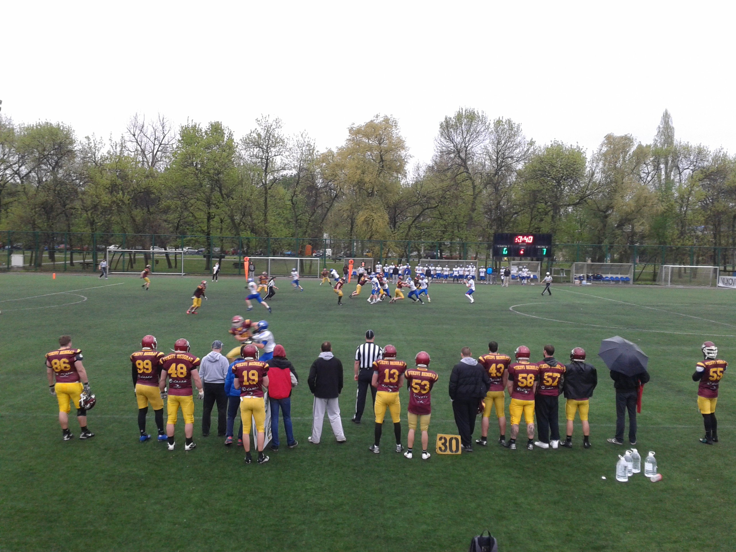 Belgrade Vukovi - Ljubljana Silwerhawks (IFAF Champions League 2015), Ada Ciganlija